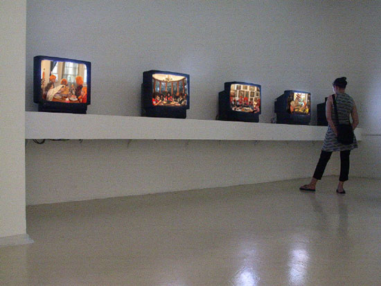 "Gullet", by Meirav Heiman, installation view, Herzliya Museum of Art, Israel, 2003